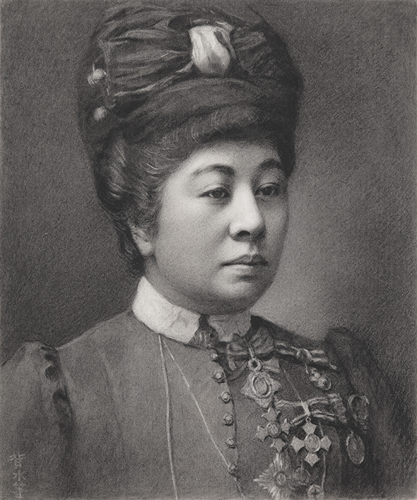 Nabeshima Nagako, by Takagi Haisui, Chokokan, Saga, Saga, Japan